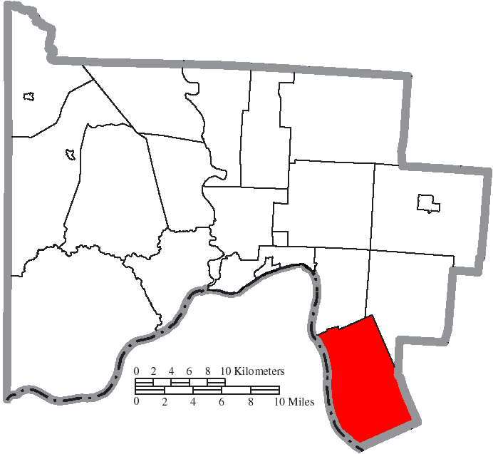 Map of the municipal and township boundaries of Scioto County, Ohio, United States, as of the 2000 census, with the location of Green Township highlighted. Township borders are shown only in unincorporated areas in order to differentiate incorporated and unincorporated areas more clearly.